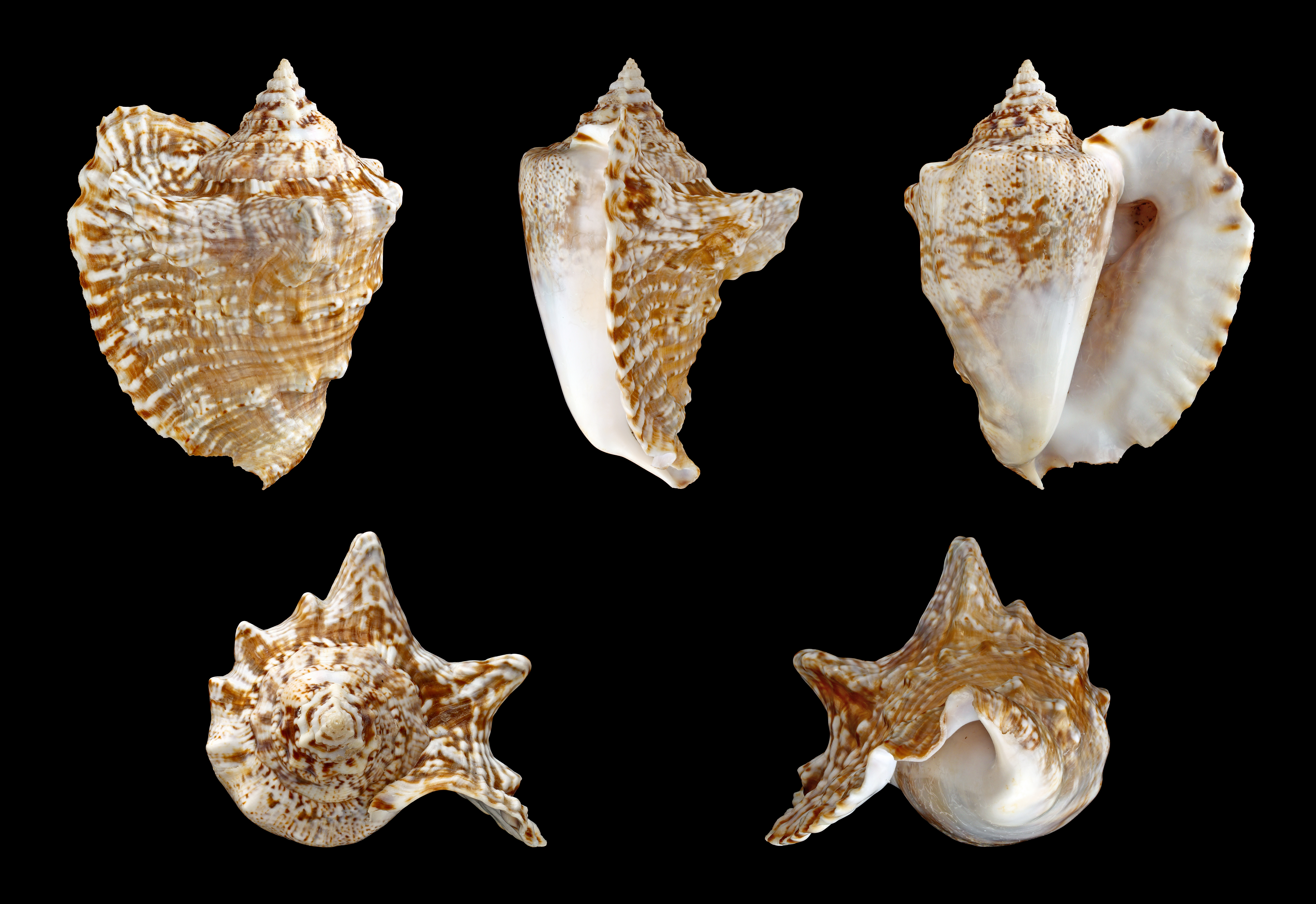 Hawk-wing Conch; Length 7.5 cm; Originating from the Caribbean; Private collection, therefore not geocoded. Dorsal, lateral (right side), ventral, back, and front view.